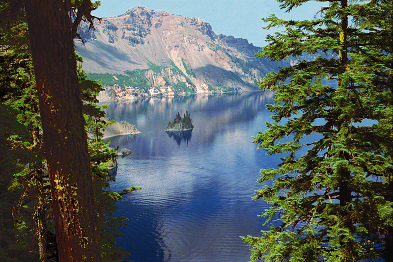 Crater Lake National Park, Oregon, USA, Phantom Ship